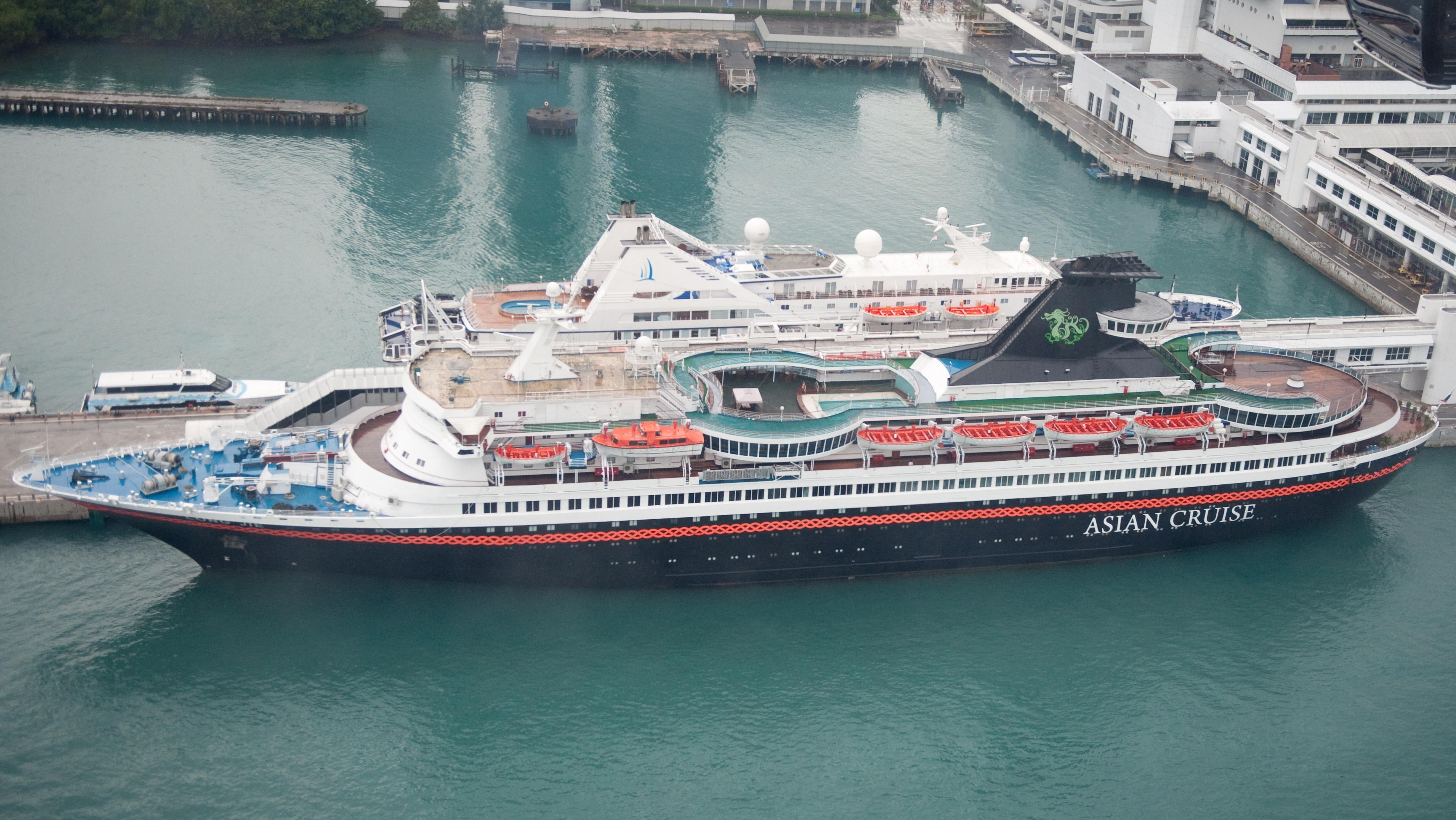 The MV Long Jie